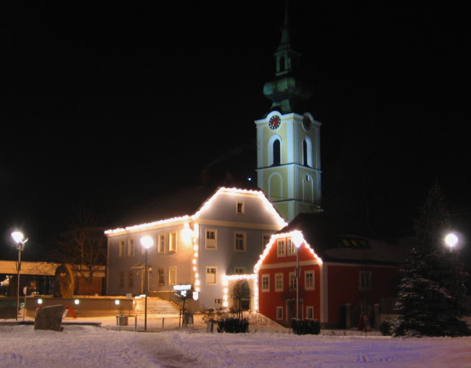 Leonding, City square, with Christmas illumination